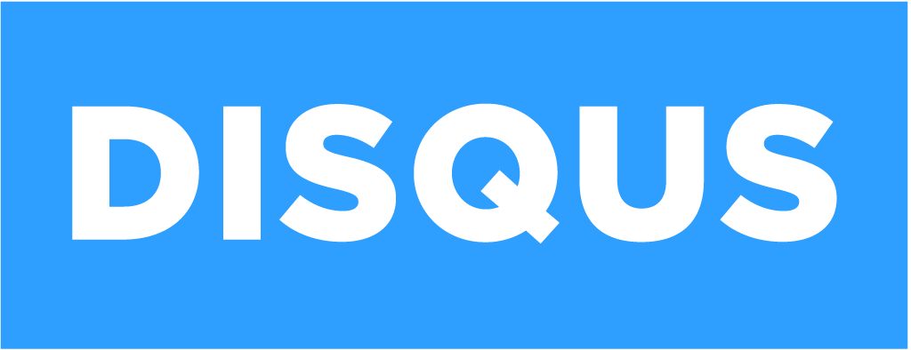 Logo for Disqus, a blog comment hosting service for websites and online communities. Taken from Logonoid, a website hosting a collection of logos.